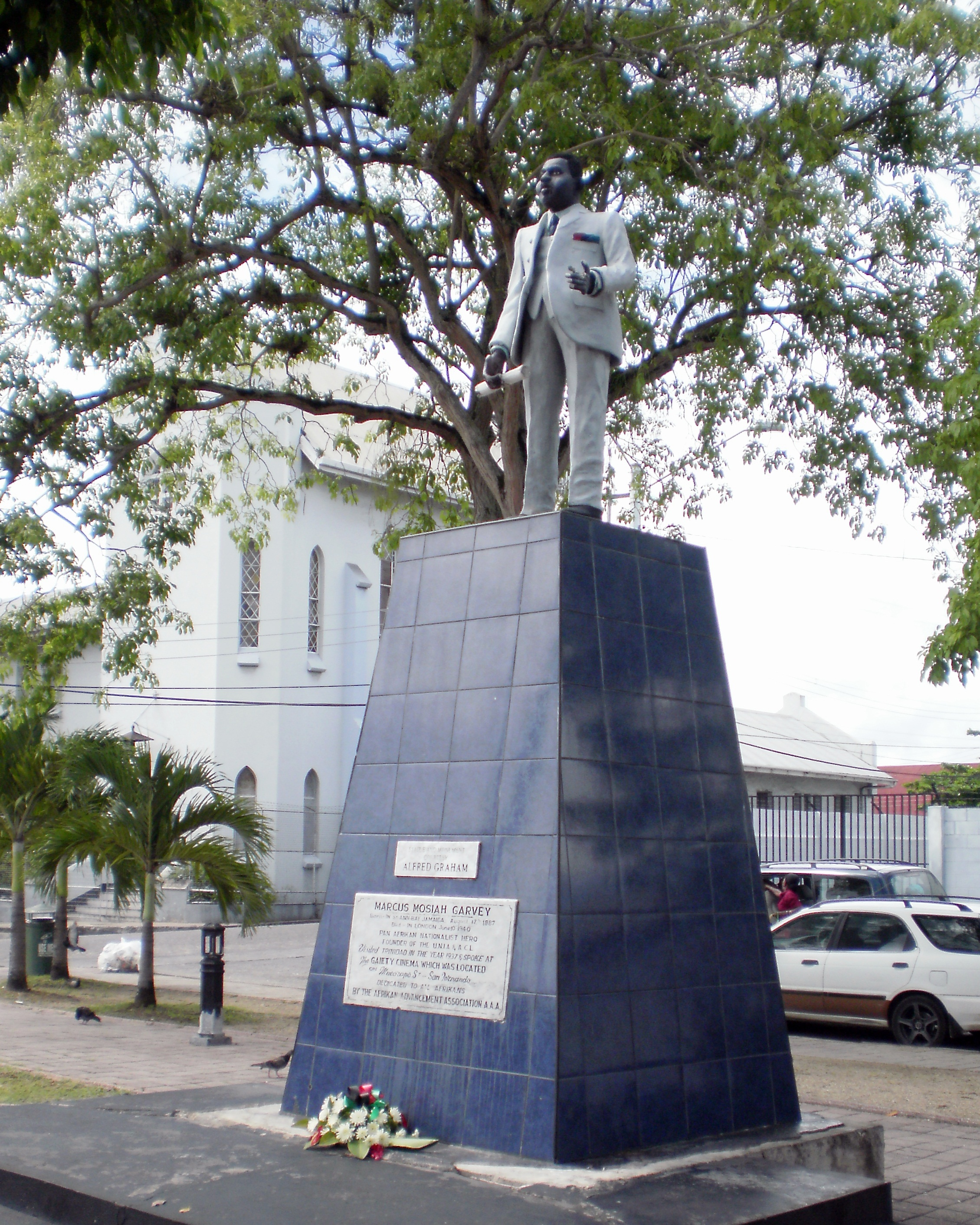 Memorial of Marcus Garvey situated at Harris Promenade, San Fernando, Trinidad and Tobago